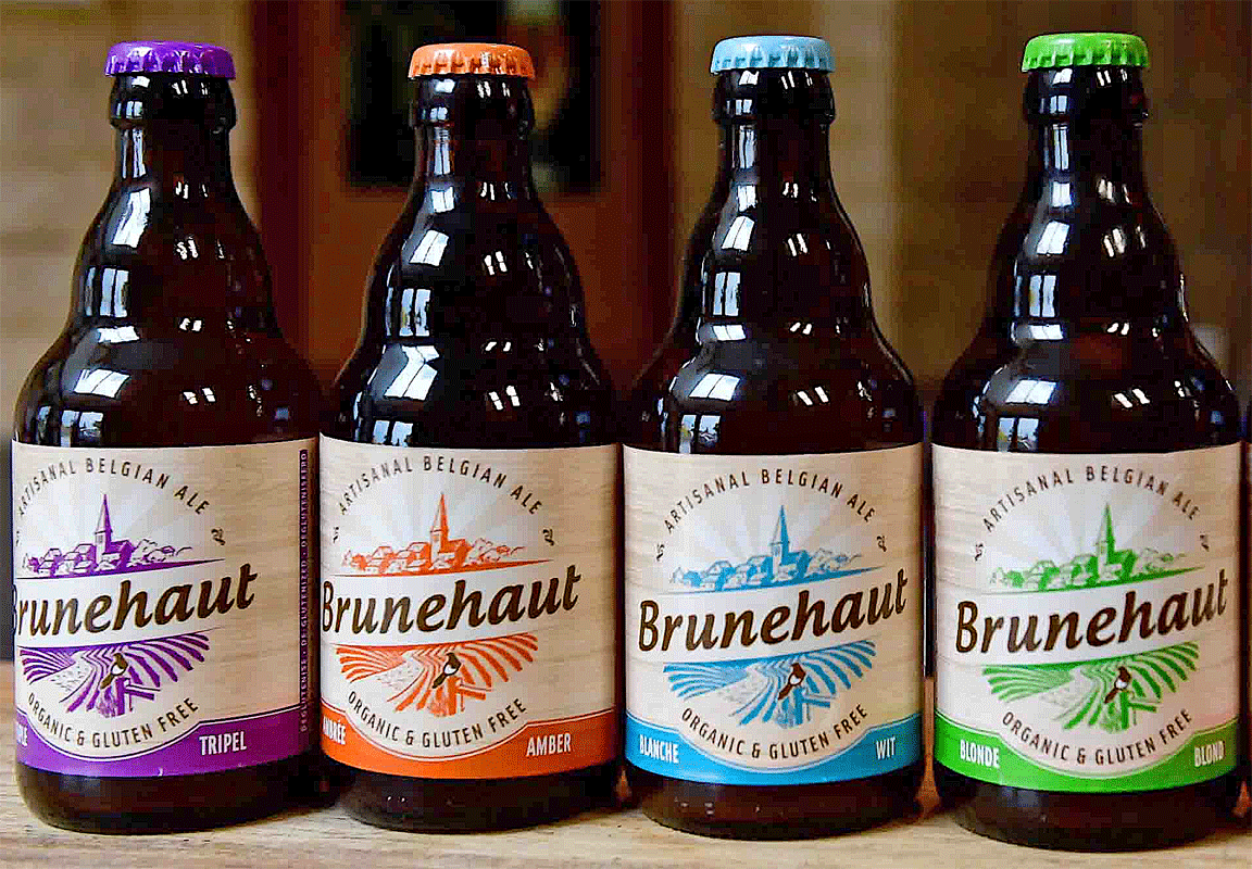 The four Brunehaut specialty beers. Each are certified as gluten-free, organic, kosher and vegan.